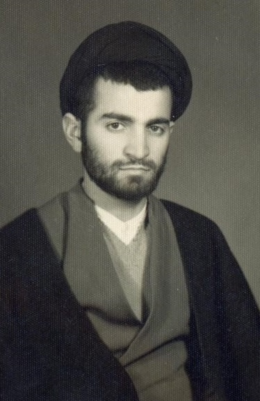 Mehdi Kharazi and his son Mohsen - May 1962 (cropped on Mehdi)